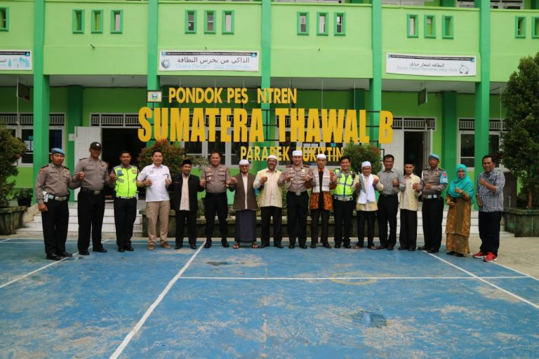 TNS_ Bukittinggi Police Chief AKBP Iman Pribadi Santoso, SIK.MH and his entourage visited the Sumatera Thawalib Islamic Boarding School of Parabek Bukittinggi on Thursday (05/12/2019) around 12:30 WIB.